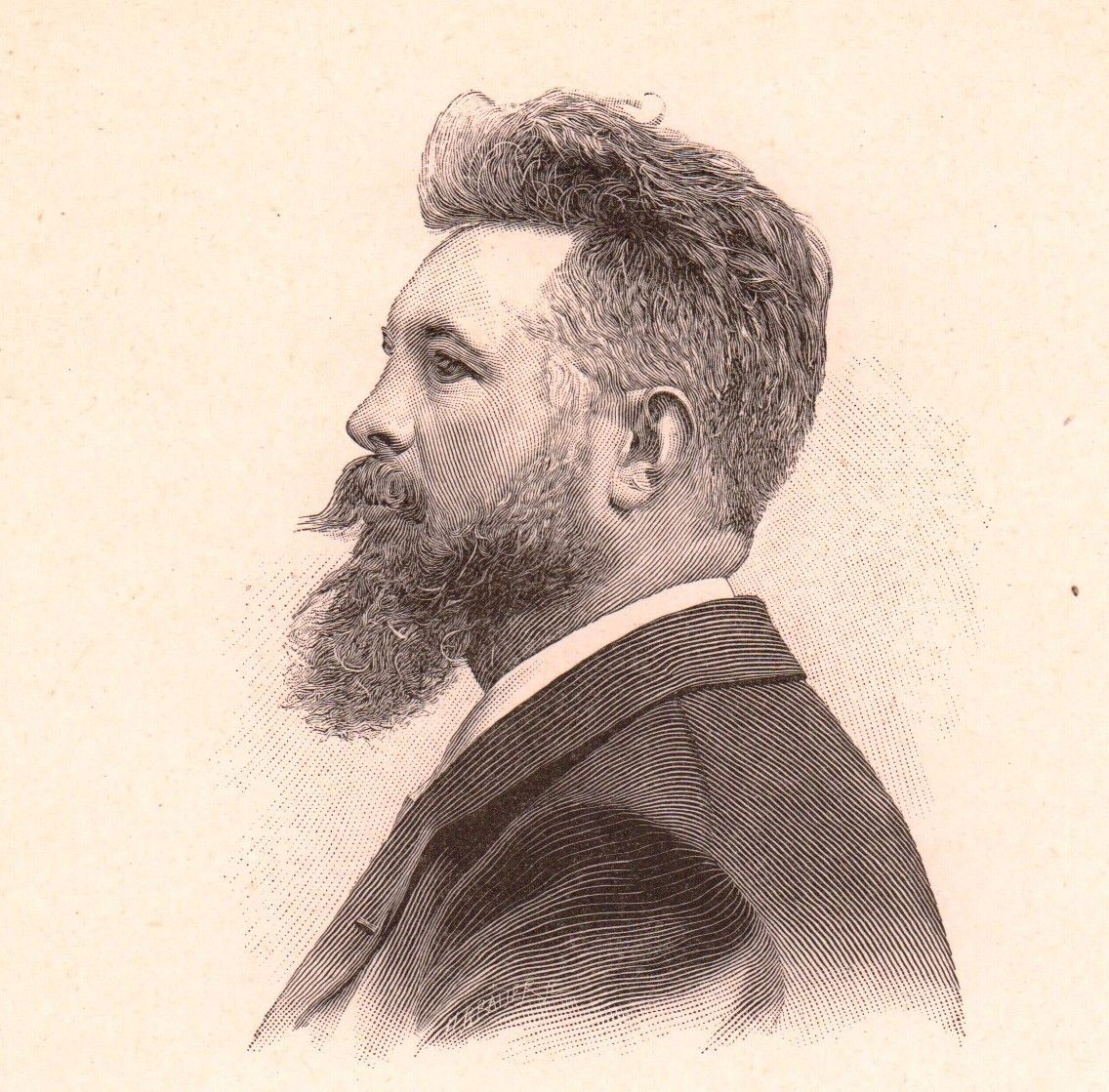 French illustrator Firmin Bouisset (1859-1925)